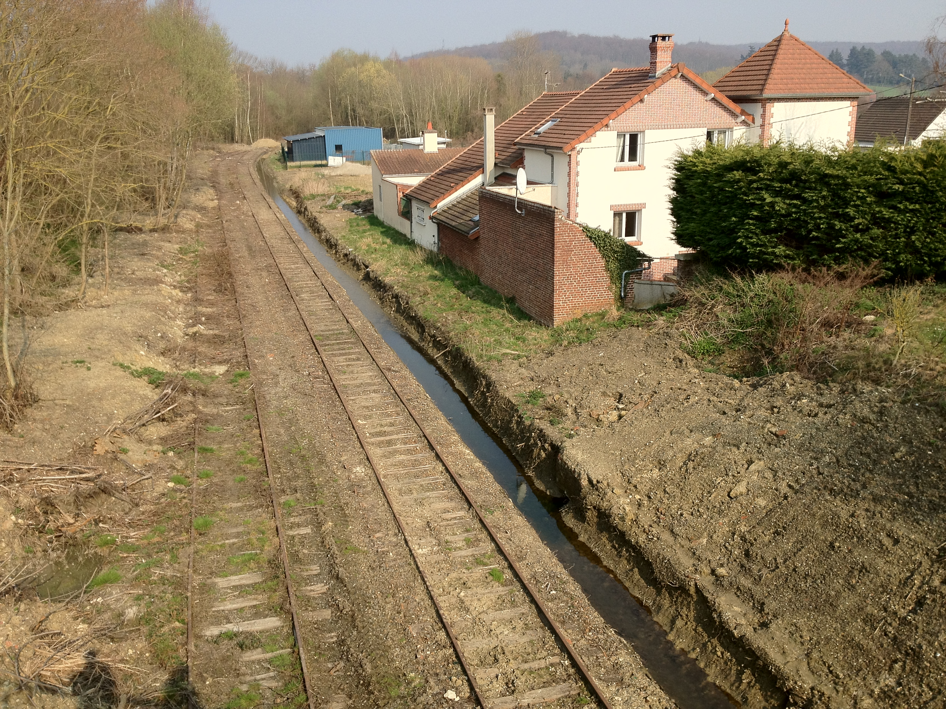 This is a view of the old train station of Barisis-Aux-Bois (2012-03-25)